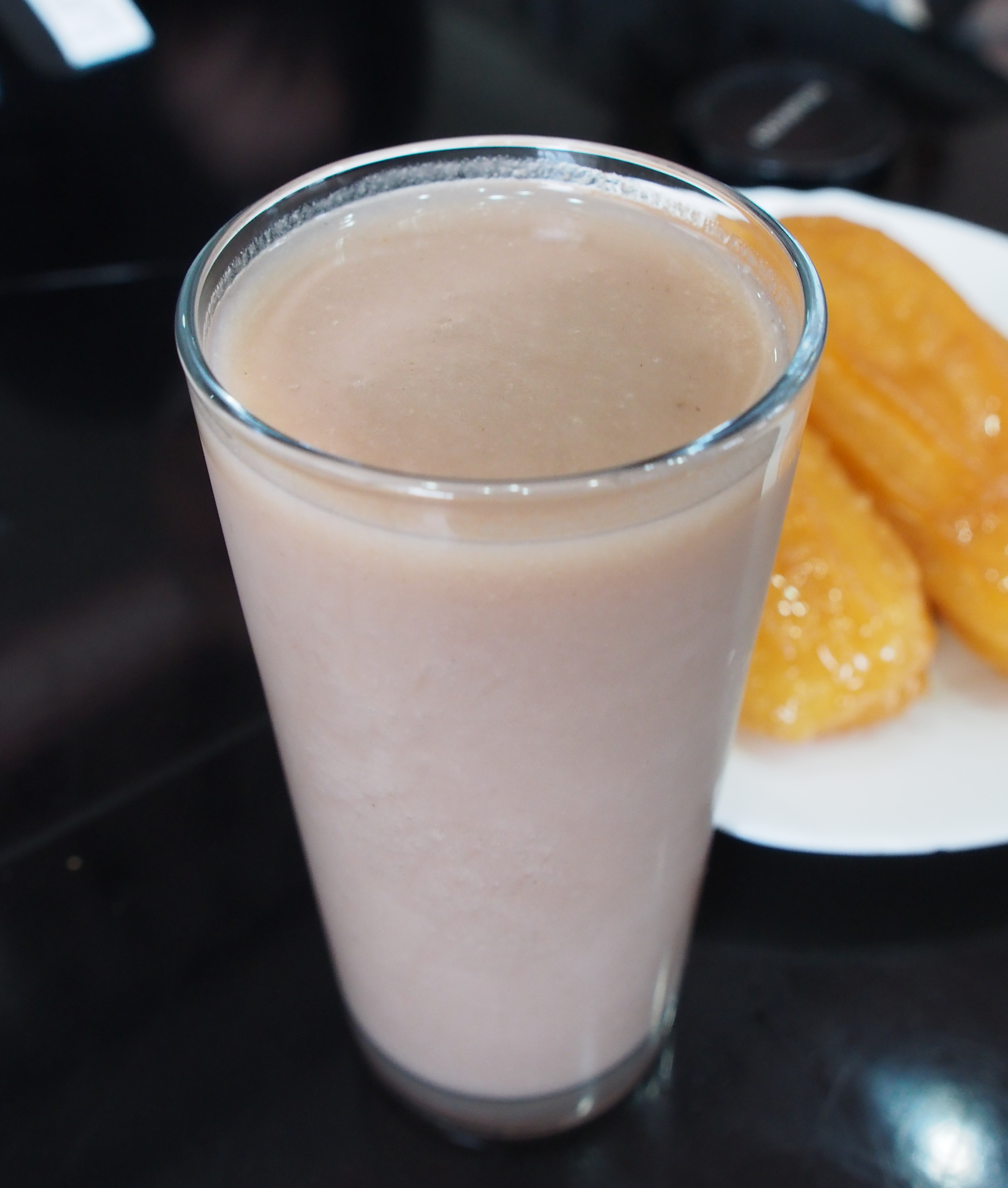 Boza with tulumbe in Bitola, North Macedonia.